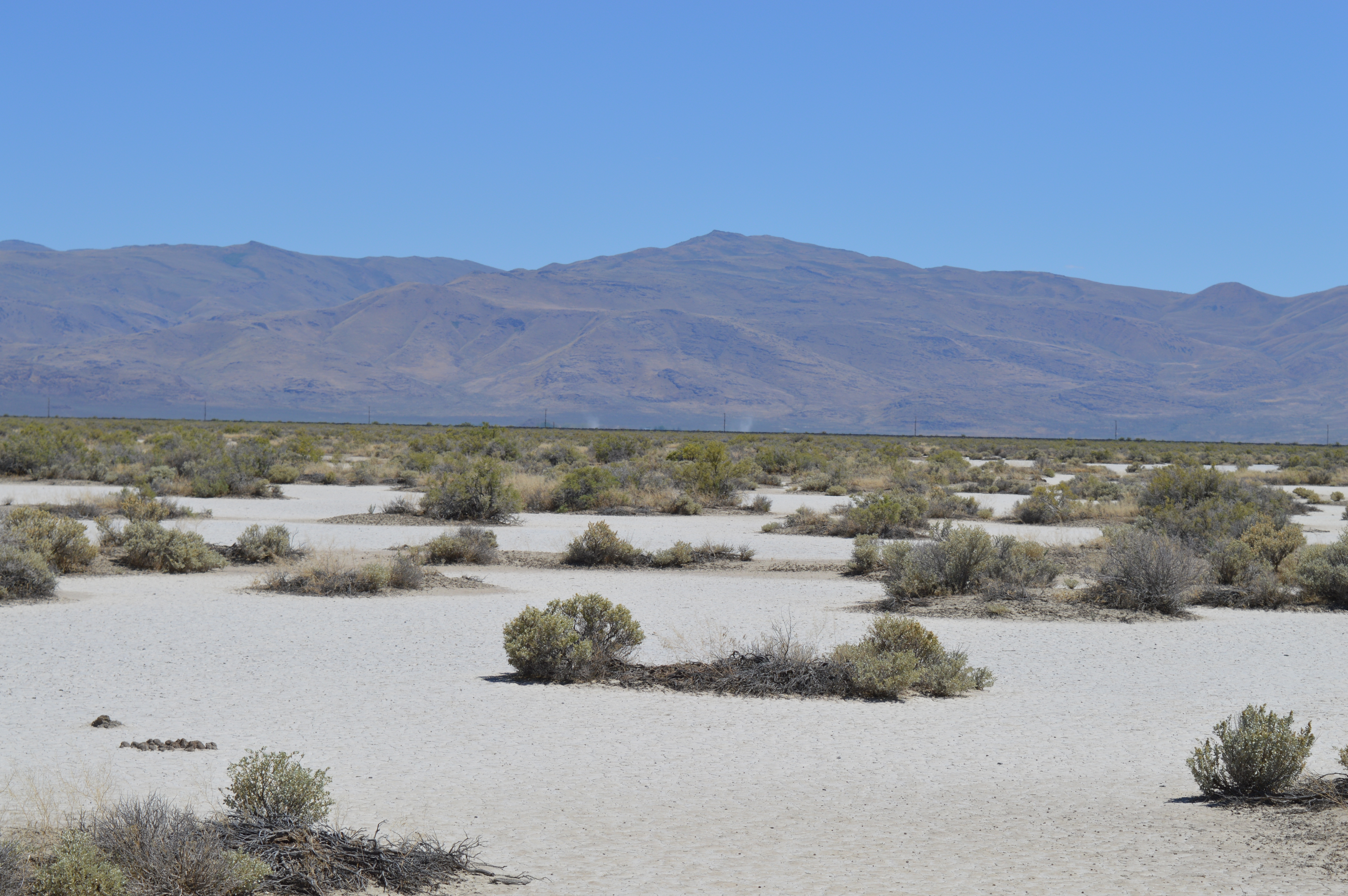 Looking south toward townsite and the current Winnemucca line